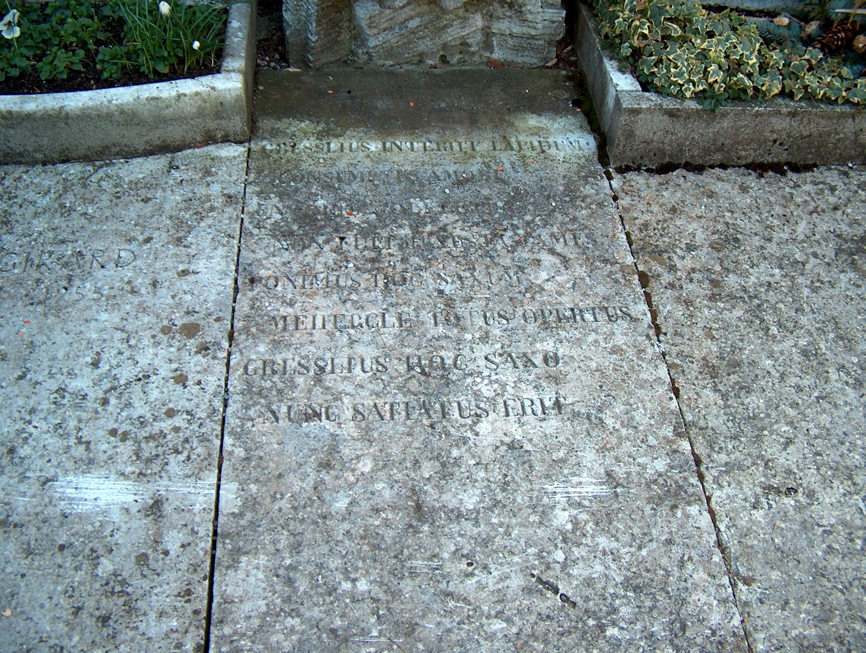 Grave inscription of Swiss geologist Amanz Gressly (1814-1865) at St. Niklaus cemetery near Solothurn, Switzerland. Picture taken by user Gestumblindi, April 2006.